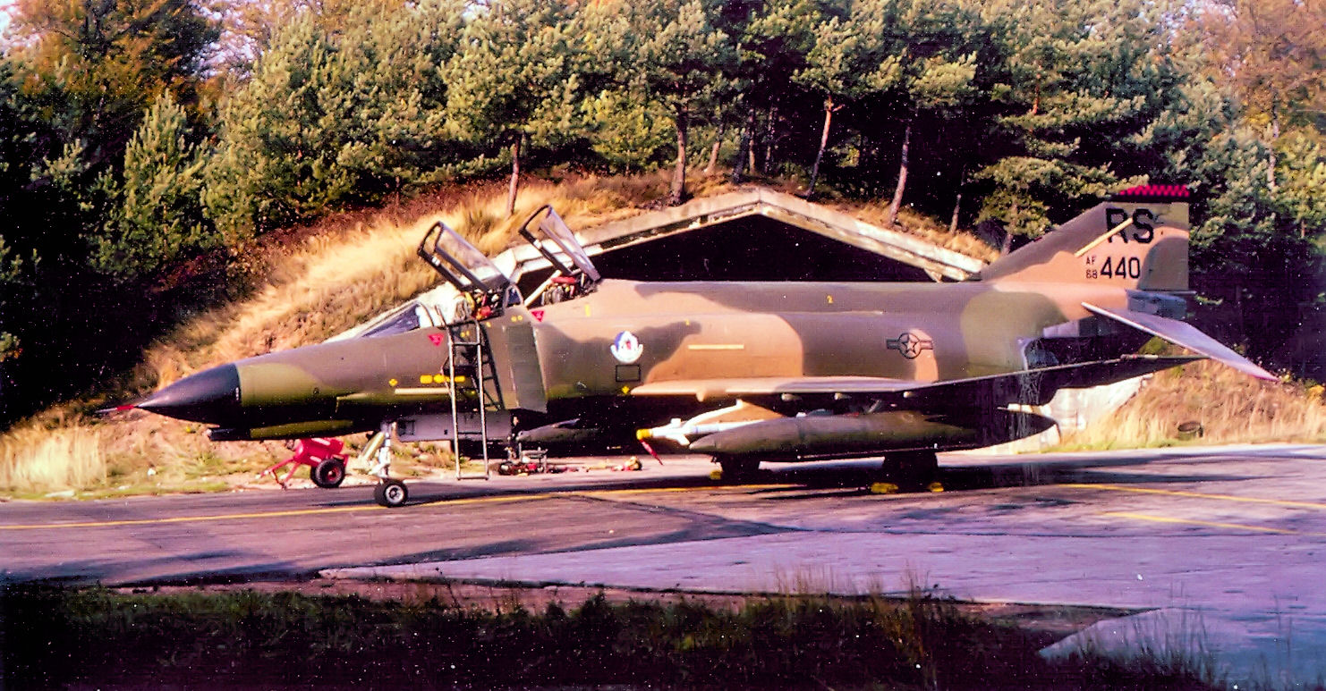 526th Tactical Fighter Squadron - McDonnell Douglas F-4E-39-MC Phantom - 68-0440